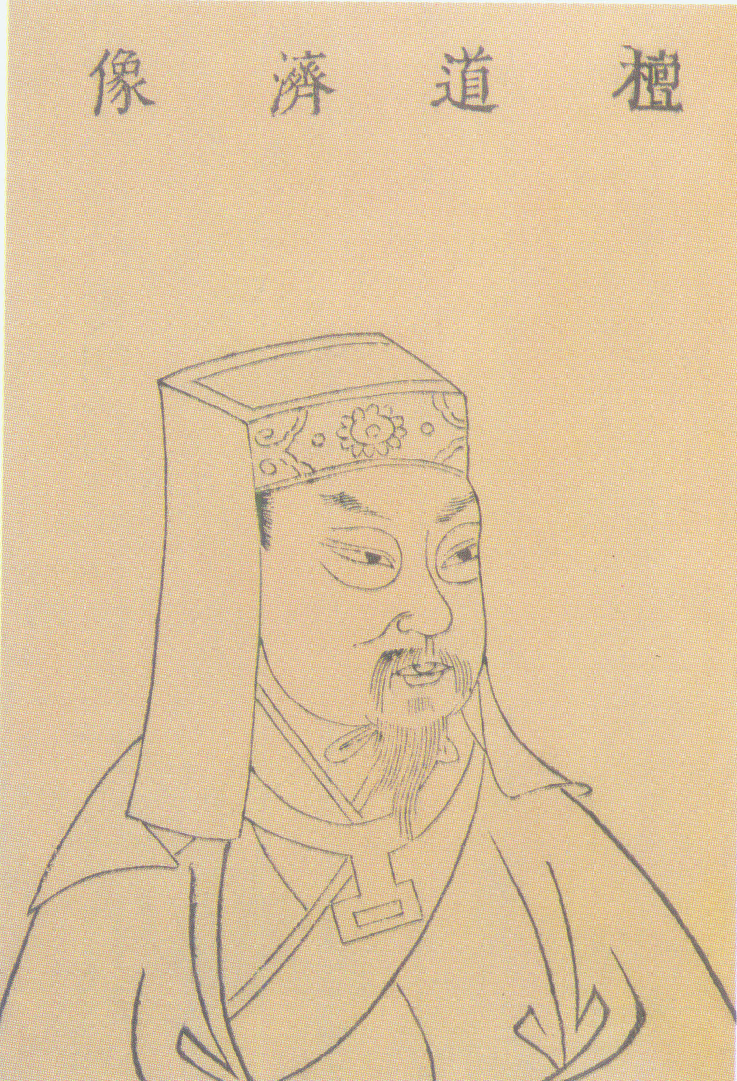 Tan Daoji (simplified